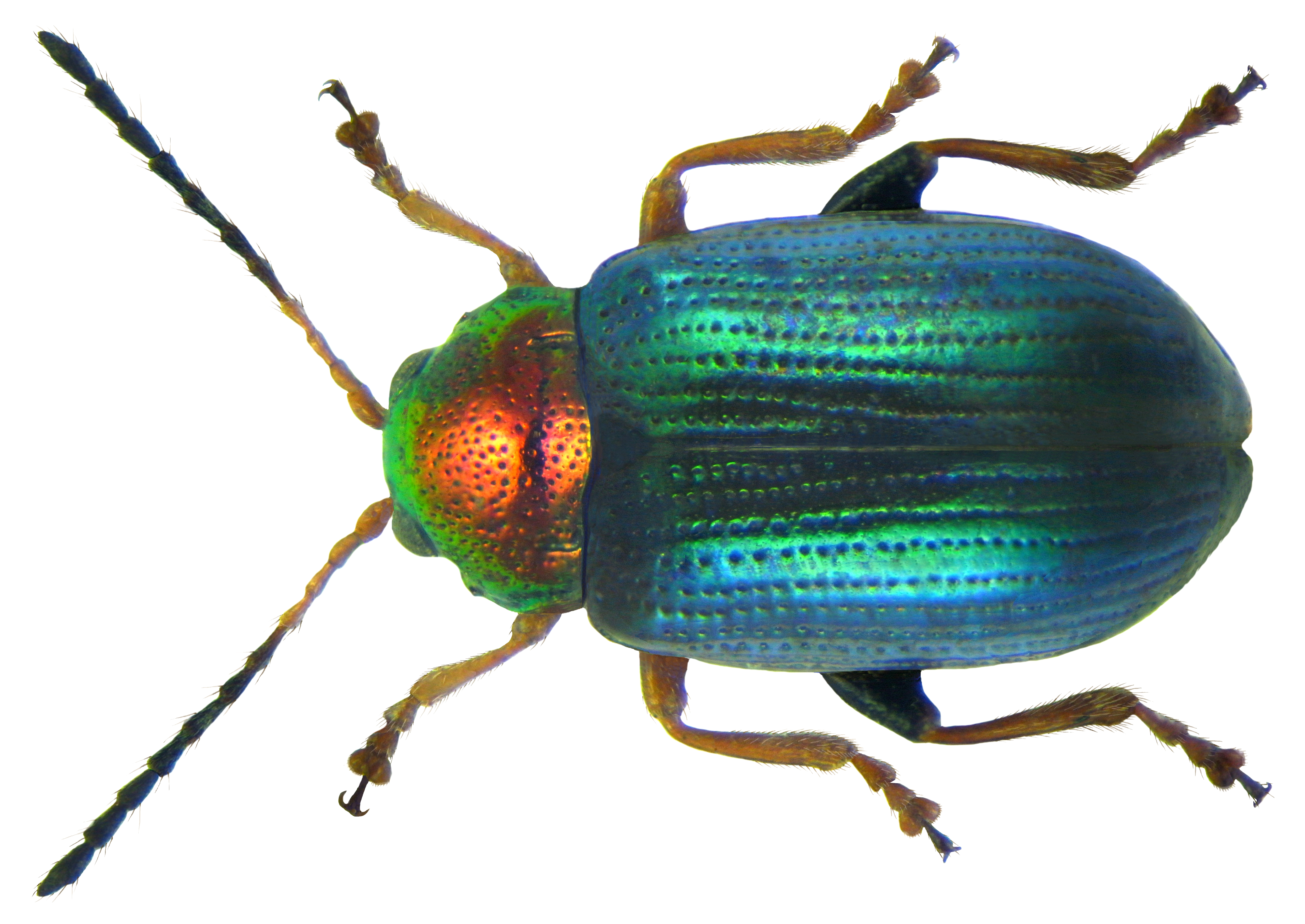 Family: Chrysomelidae Size: 2.5-3.5 mm Origin: Europe Ecology: on Salix and Populus species Location: Germany, Bavaria, Upper Franconia, Selbitz leg.det. U.Schmidt, 16.VI.2004 Photo: U.Schmidt, 2011